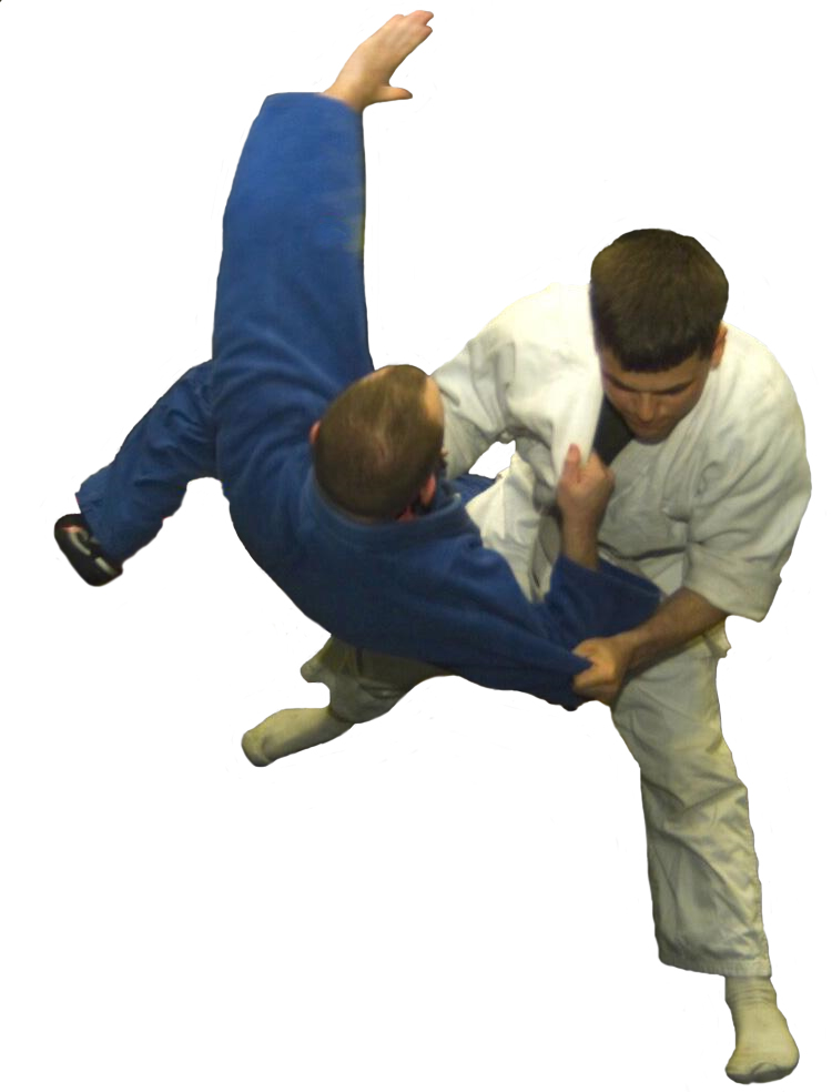 An Osoto gari throw in Judo; edited to reduce size.